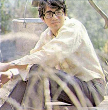 Promotional photo of Van Dyke Parks for the album Song Cycle. Published in the December 9, 1967 issue of Billboard Magazine without a copyright notice.